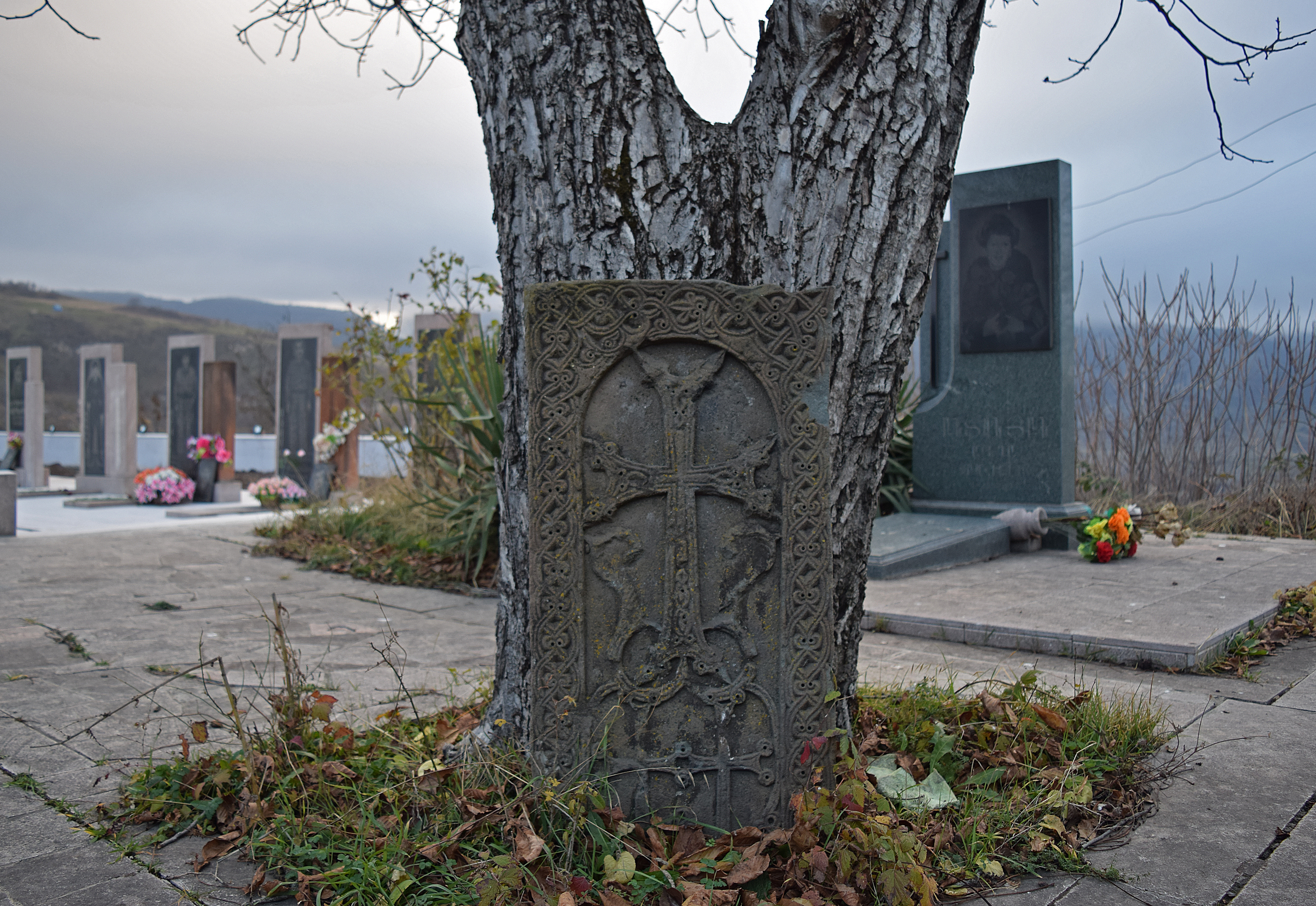 Gravestone, Shosh